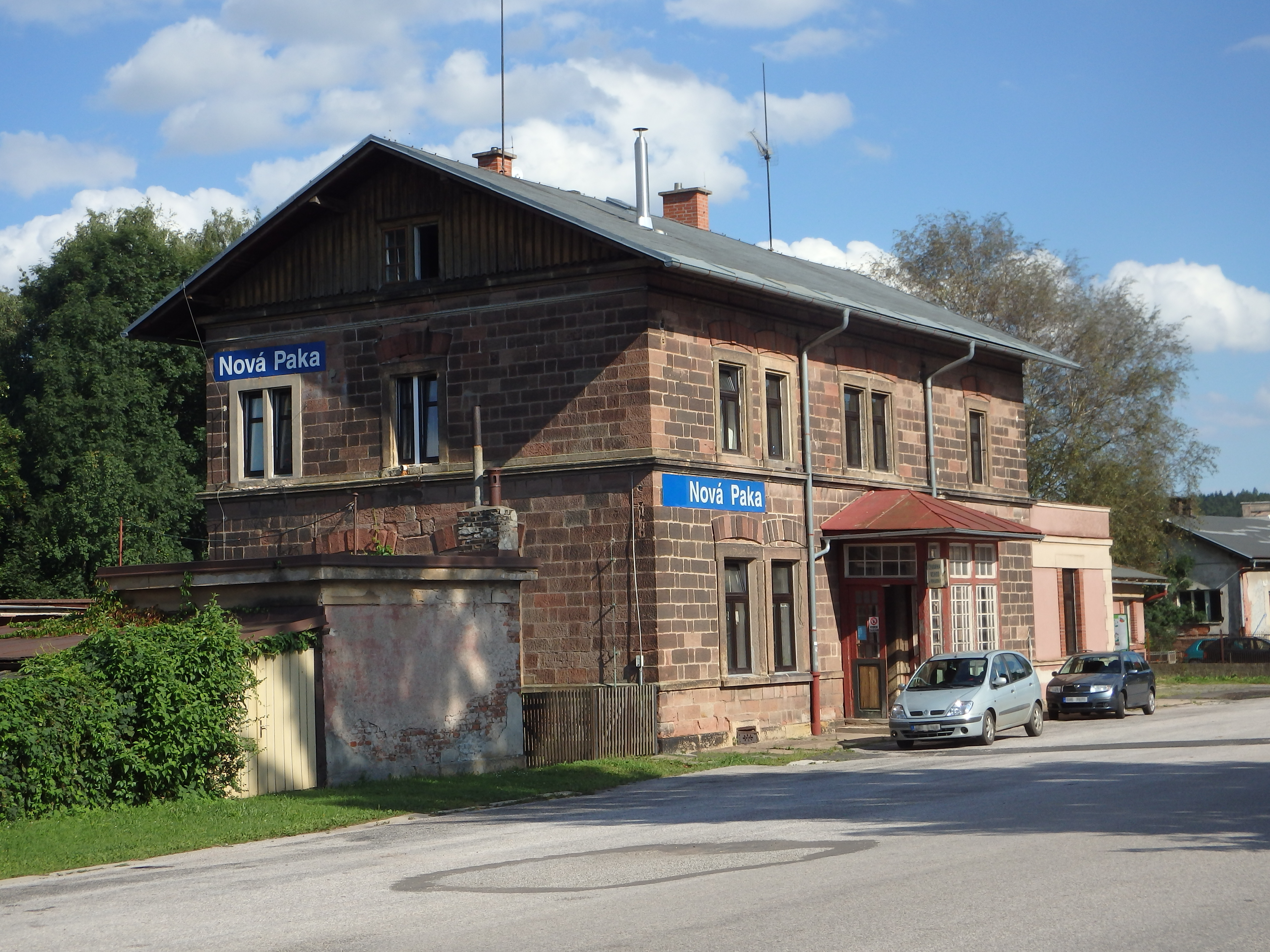 Train station in Nová Paka